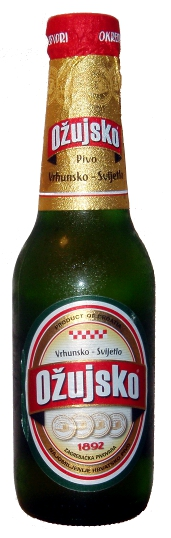 Ozujsko beer bottle